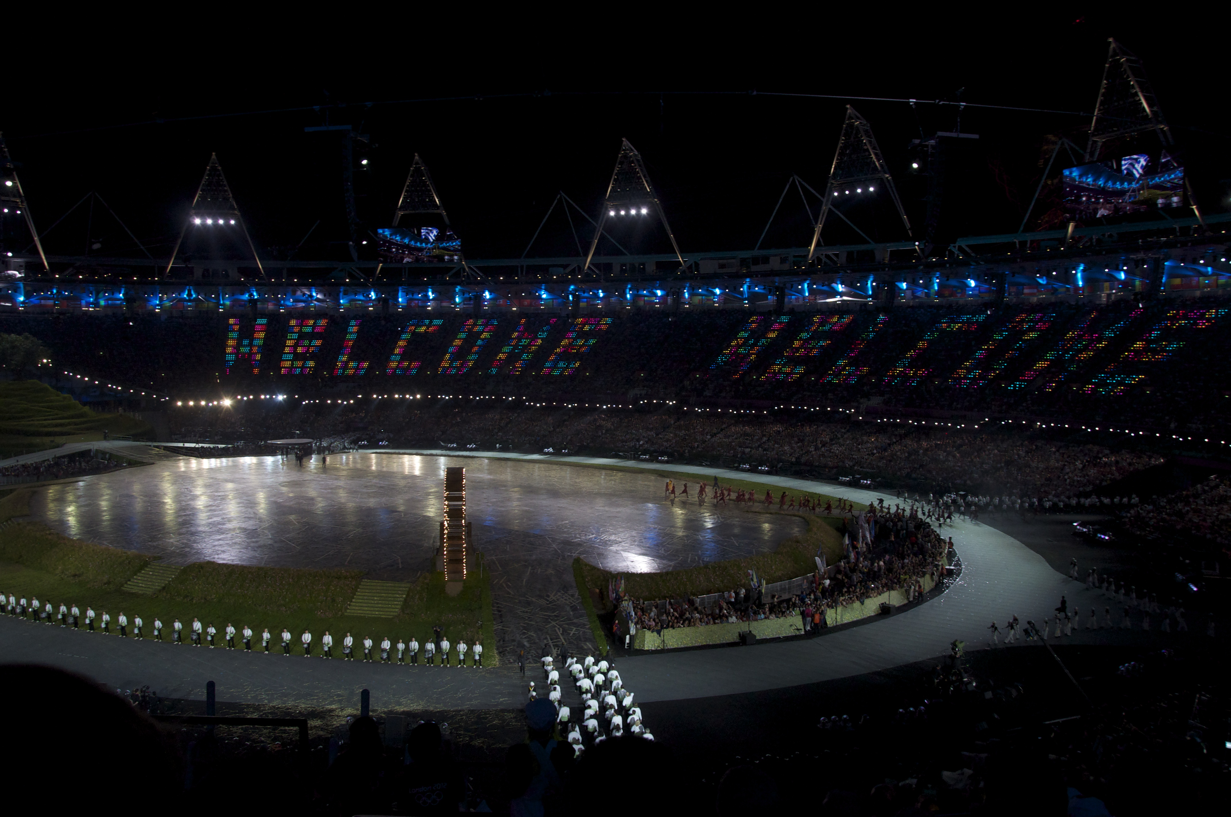 2012 Summer Olympics opening ceremony